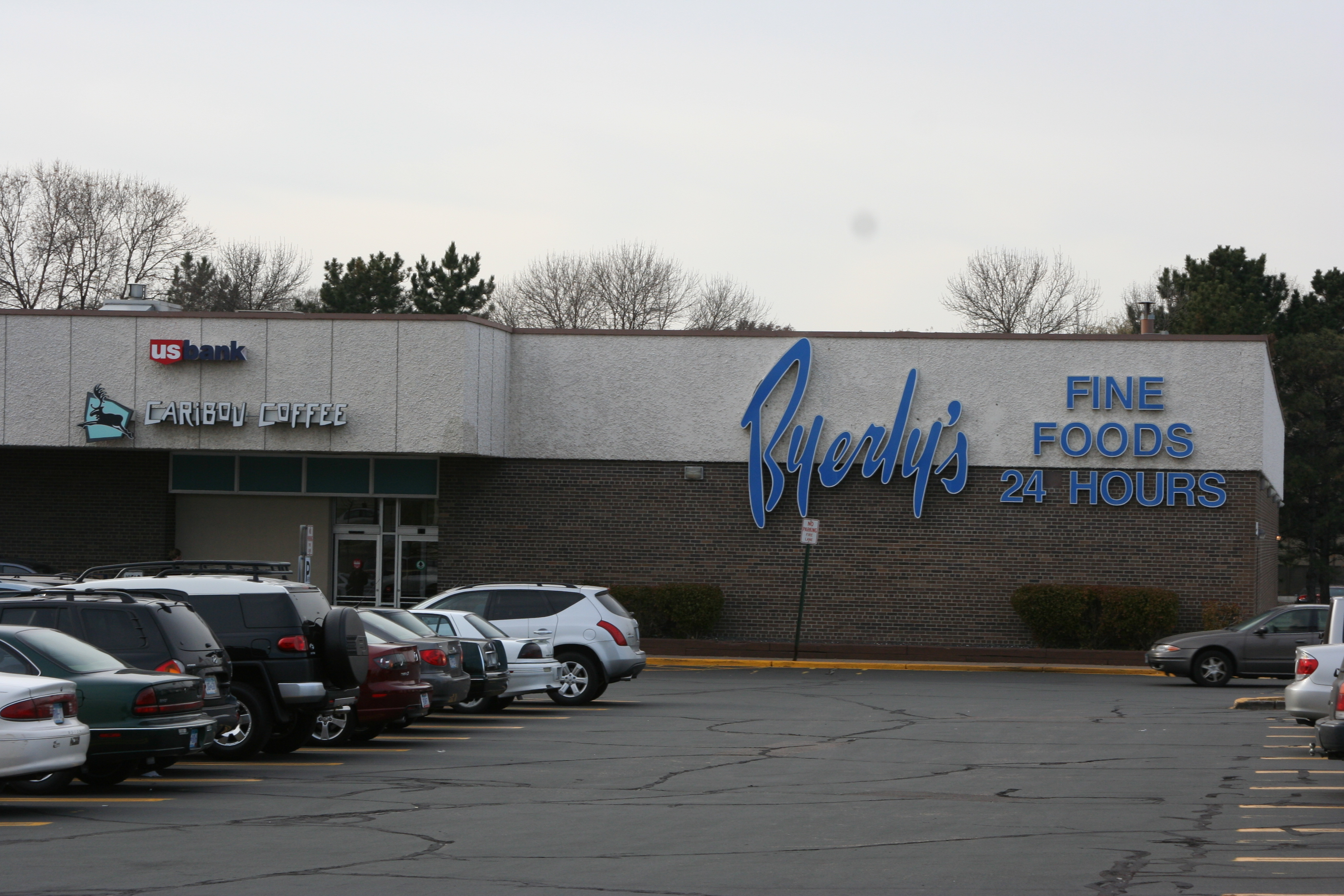 Photo showing the exterior of the Byerly's grocery store in Golden Valley, MN.